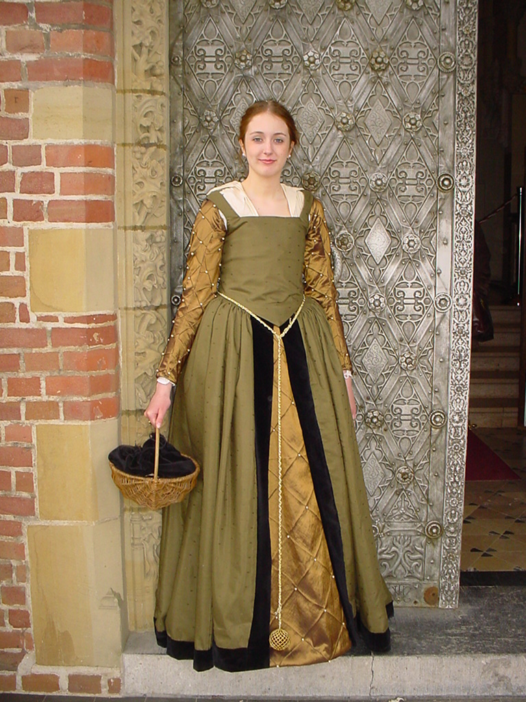 Elizabethan Gown by Welmoed Tamminga.